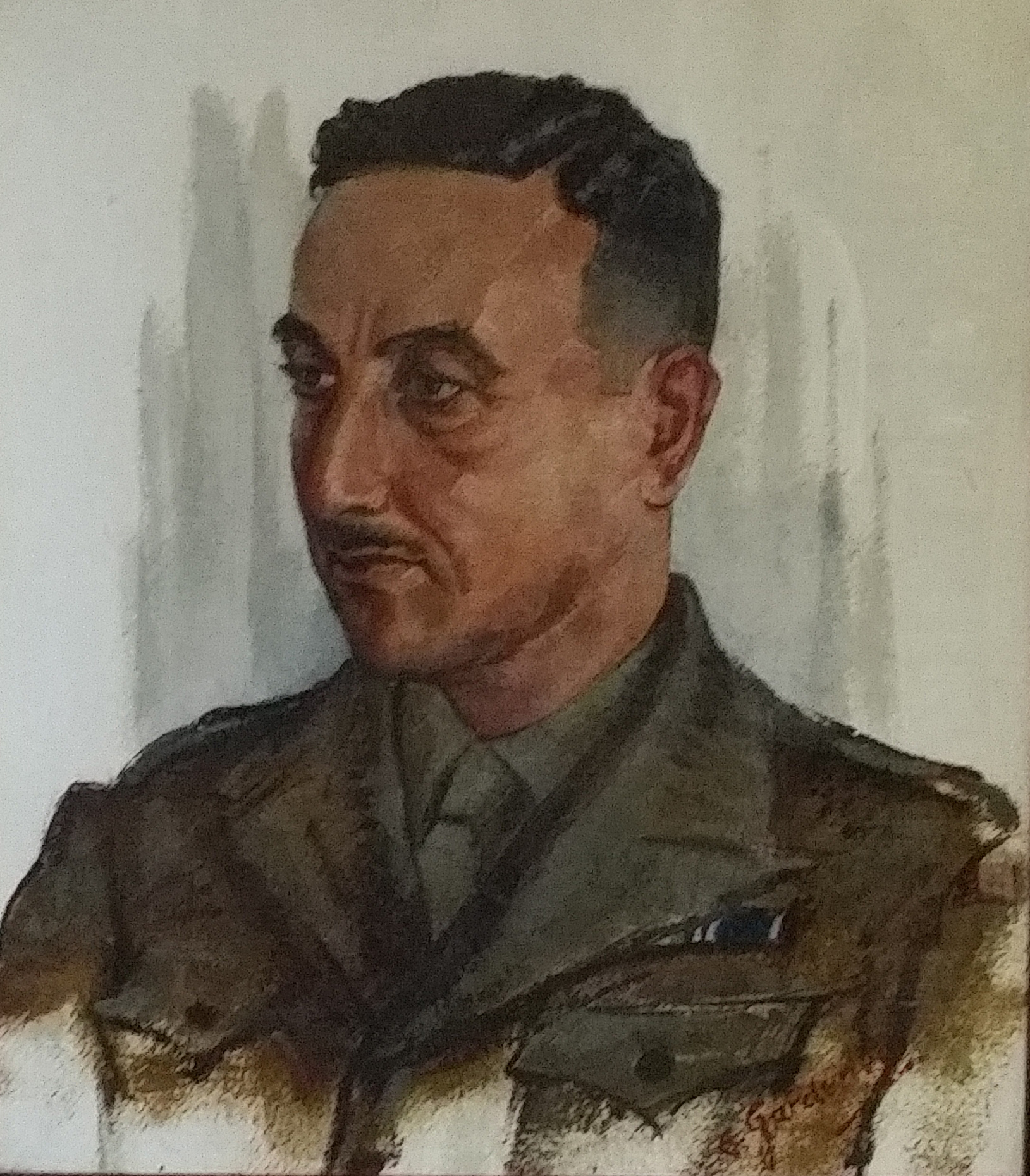 Historic Painting of the late Simon Bloomberg circa 1946 as UNRRA Director, Bergen-Belsen Displaced Persons Camp.